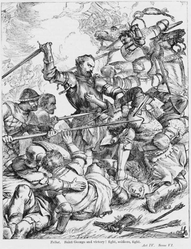 Talbot engages in battle in Henry VI, Part 1